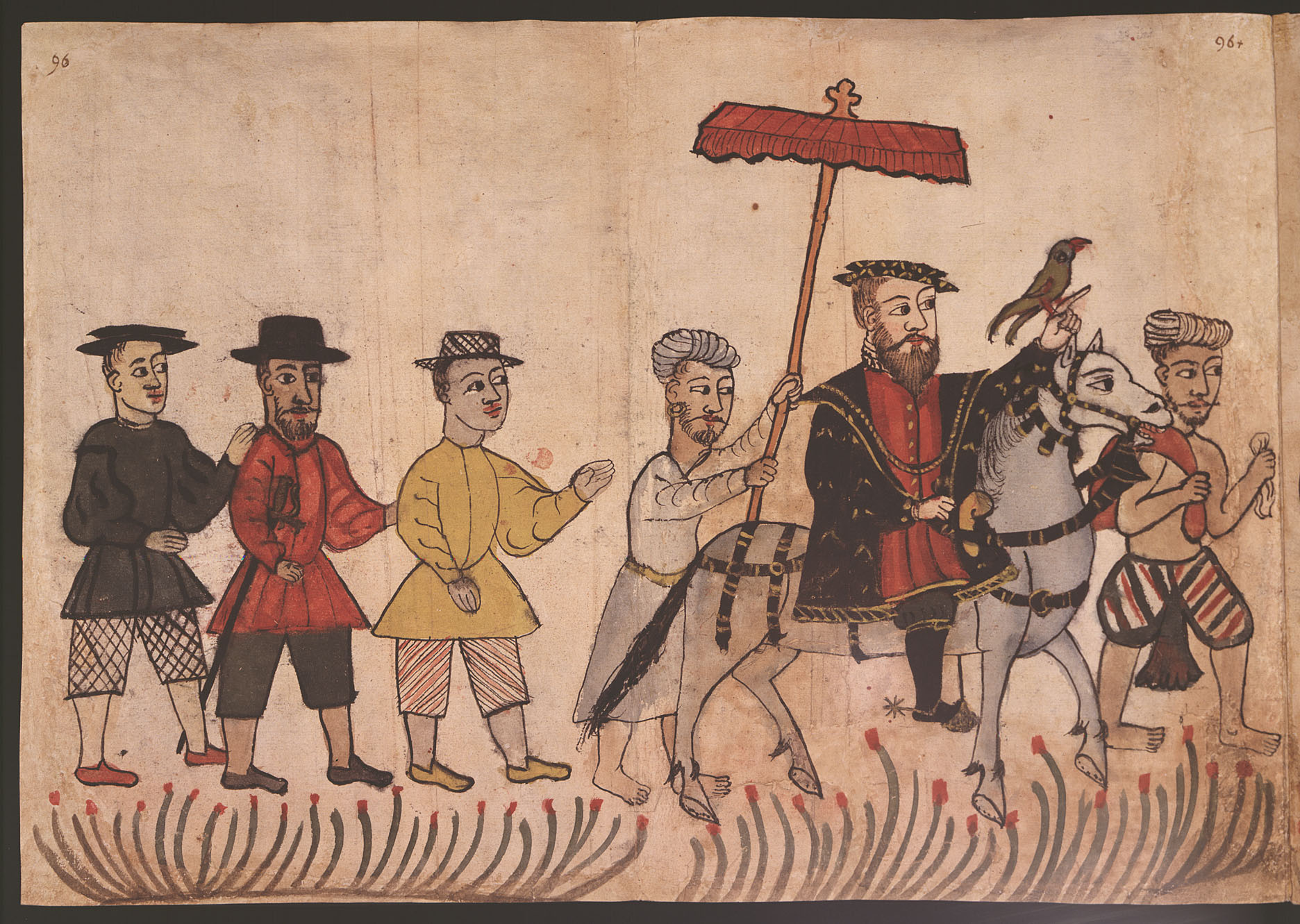 Anonymous Portuguese watercolour illustration from the Códice Casanatense, depicting a Portuguese nobleman in India with his entourage.